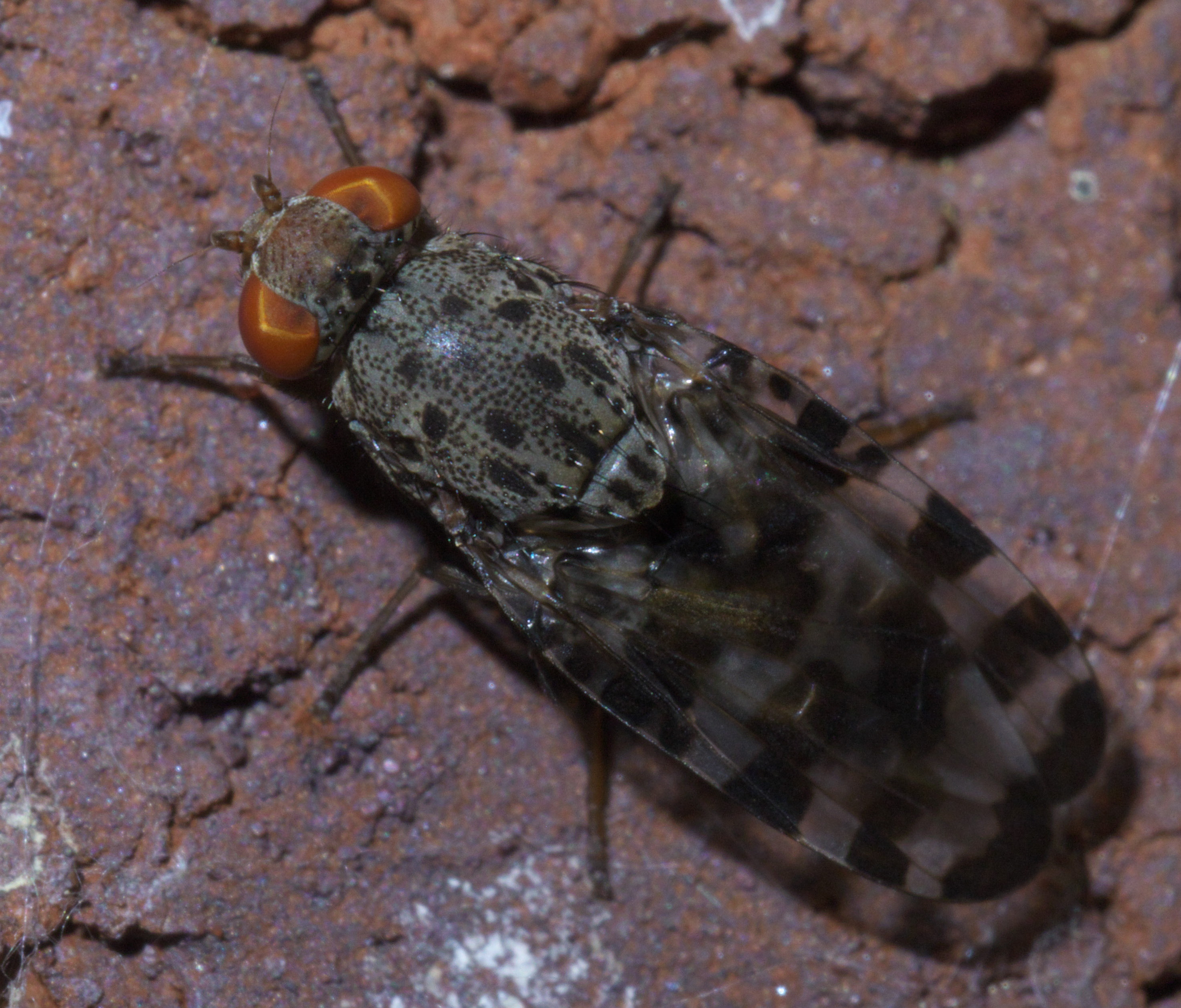 Pseudotephritis approximata, Family: Picture-winged Flies, Size: 9.4 mm, ID Confidence: 88